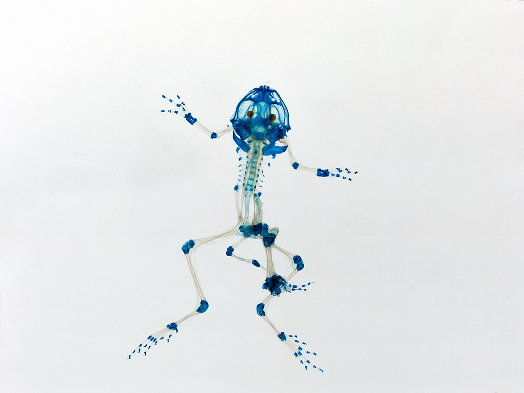 Trematode cyst-infected Pacific Treefrog (Hyla regilla) with supernumerary limbs, from La Pine, Deschutes County, Oregon, 1998-9. This 'category I' deformity (polymelia) is believed to be caused by the trematode cyst infection. The cartilage is stained blue and calcified bones in red. Front detail view of the frog against light grey background.